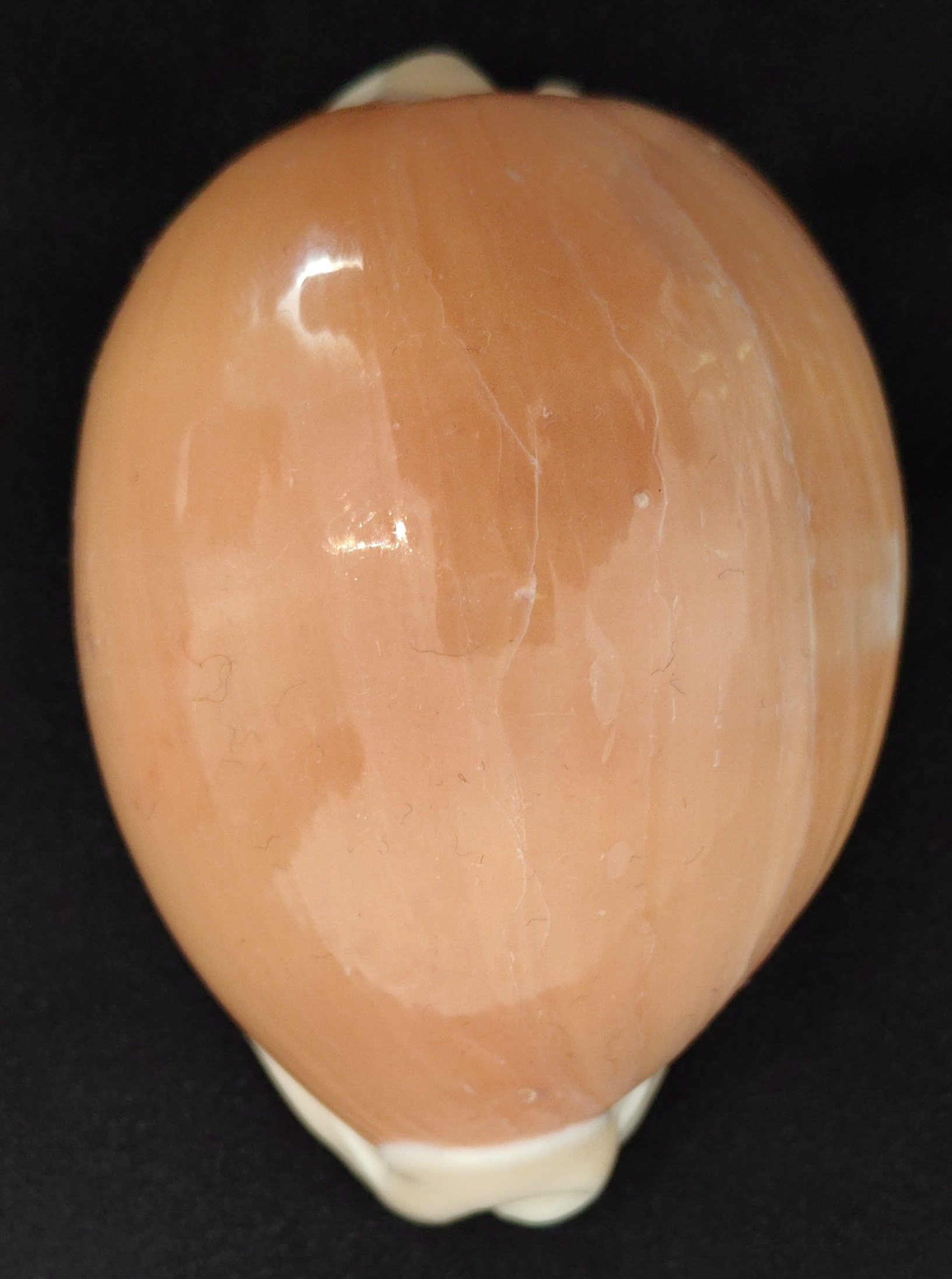 Lyncina Aurantium Back